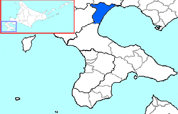 The location of Oshamanbe in Oshima Subprefecture, Hokkaido Prefecture, Japan.